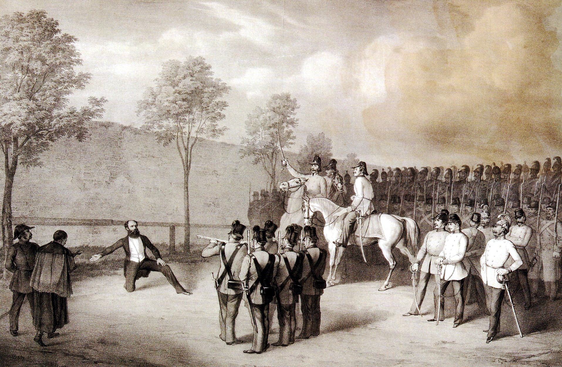 Execution of Lajos Batthyány